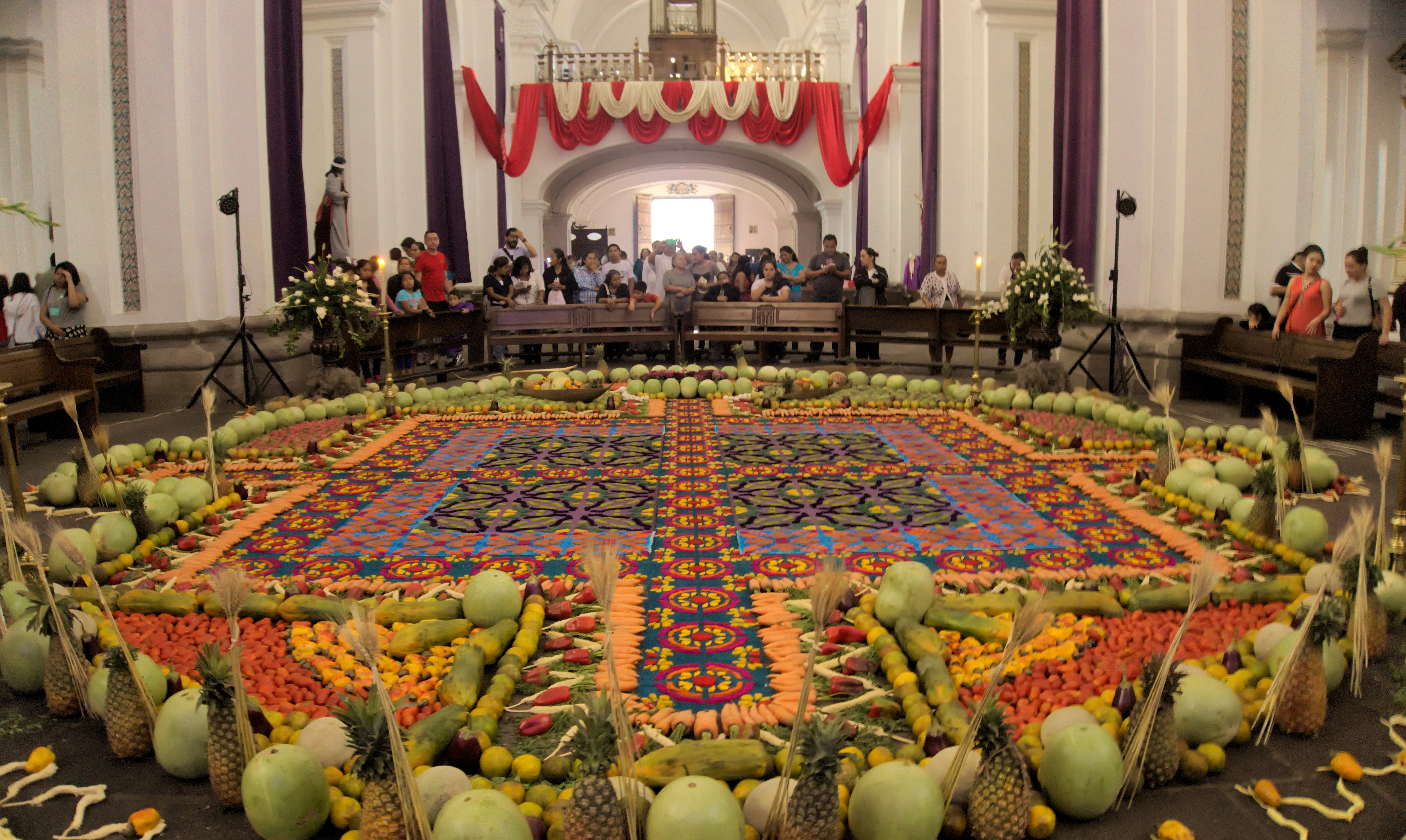 Carpet and decoration for Semana Santa in the church La Merced in Antigua, Guatemala. Antigua's "carpets" are made of colorized sawdust and very famous throughout the country.